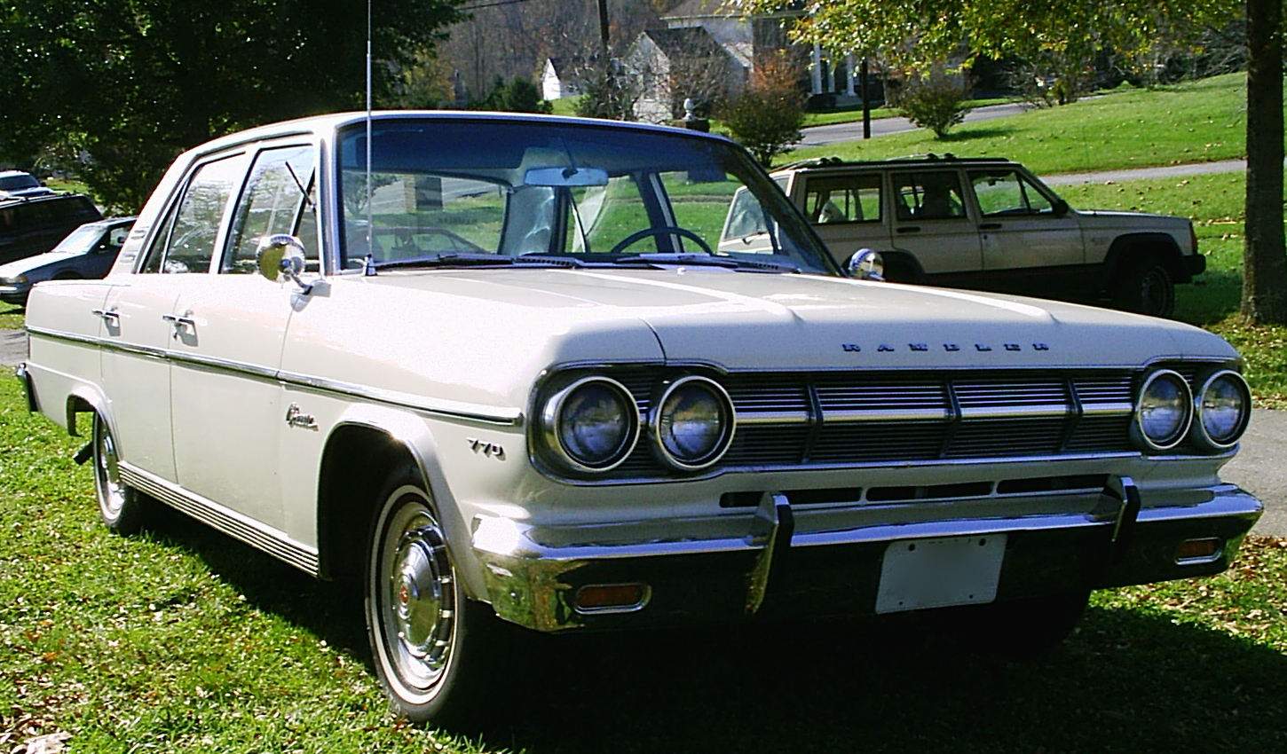 1965 Rambler Classic 770 by American Motors Corporation (AMC). Four-door sedan finished in white.